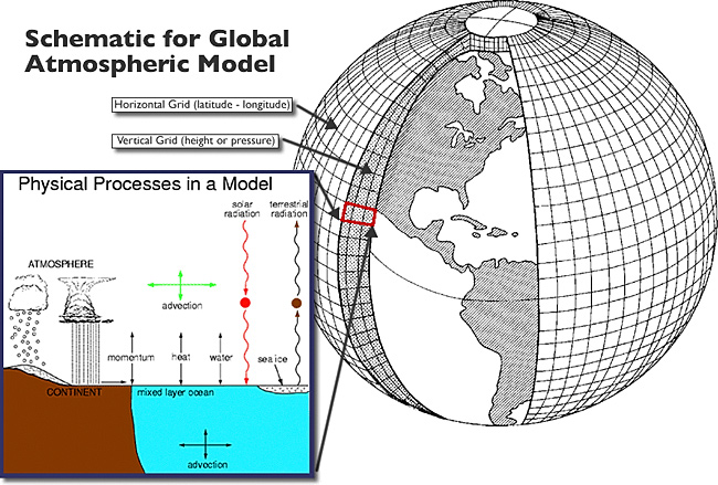 Climate models are systems of differential equations based on the basic laws of physics, fluid motion, and chemistry. To “run” a model, scientists divide the planet into a 3-dimensional grid, apply the basic equations, and evaluate the results. Atmospheric models calculate winds, heat transfer, radiation, relative humidity, and surface hydrology within each grid and evaluate interactions with neighboring points. From: NOAA